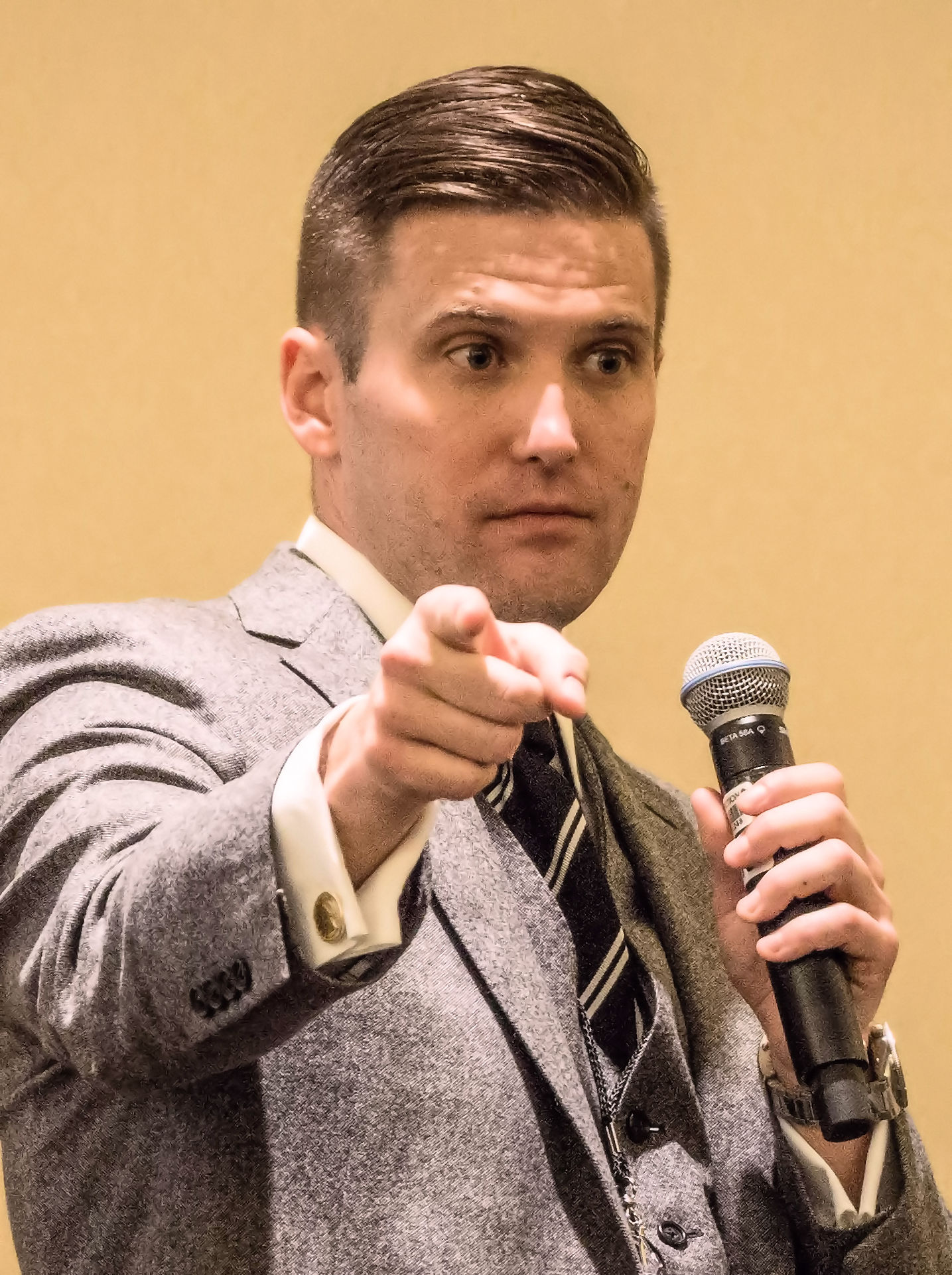 Richard Spencer speaking at a public gathering in 2016